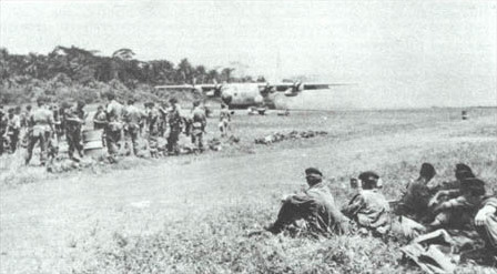 Original description: "C-130 Hercules landing at Paulis airstrip to remove hostages and withdrawing paratroops"